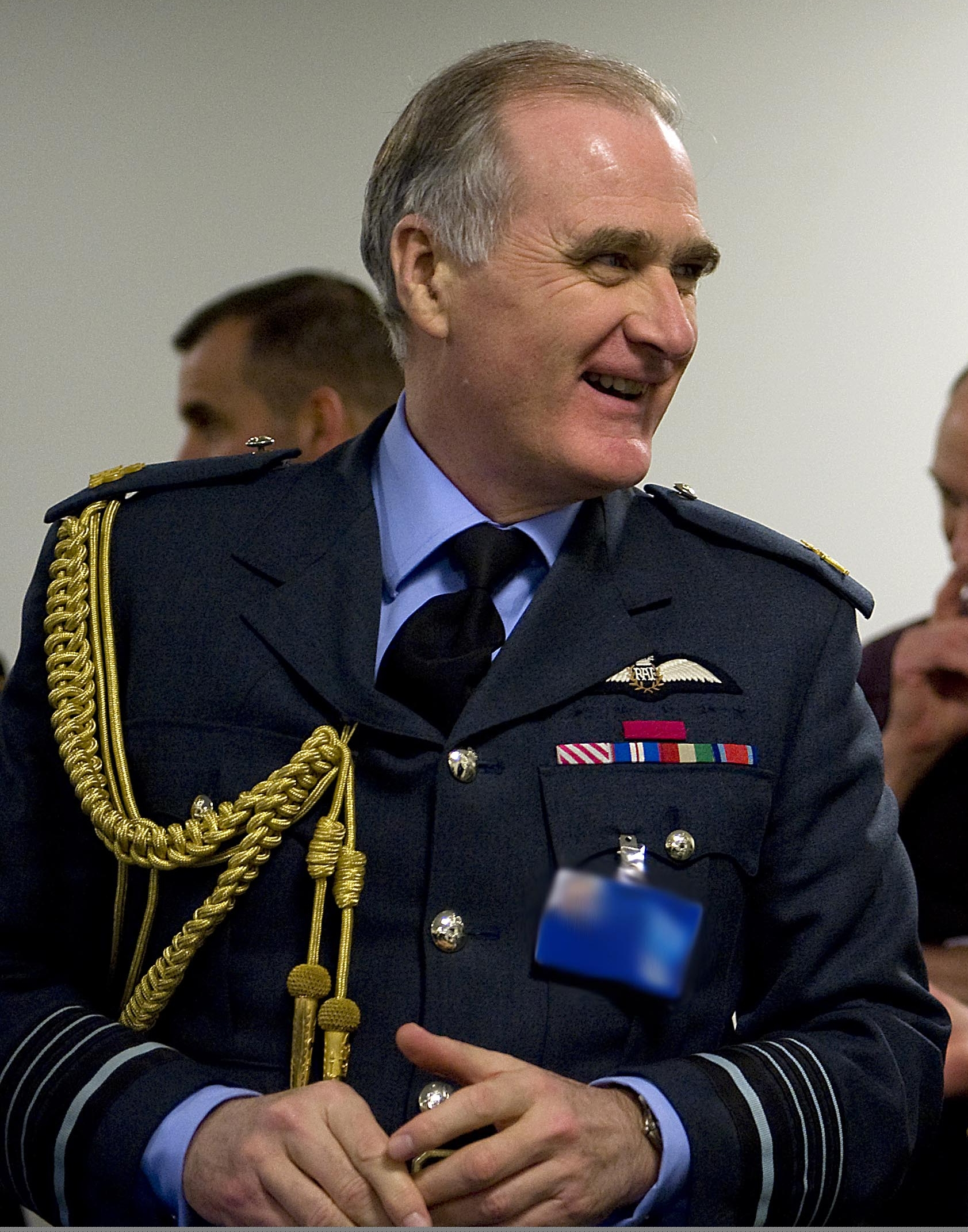 British Air Chief Marshal Jock Stirrup before a Regional Command South meeting in Istanbul, Turkey